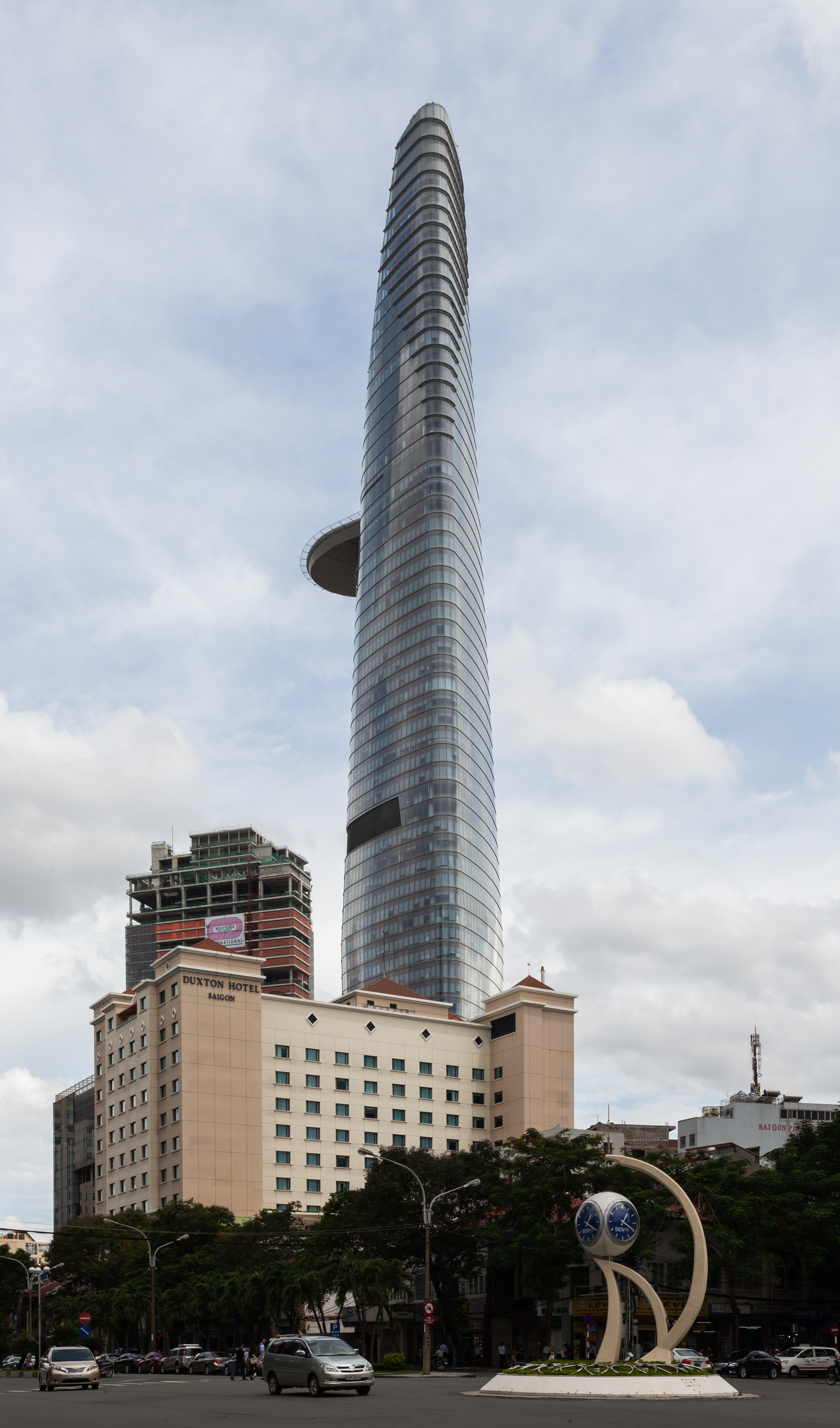 Bitexco Financial Tower, Ho Chi Minh City, Vietnam